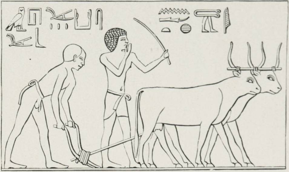 Two men and an ox-team plowing, drawn in the ancient Egyptian style.